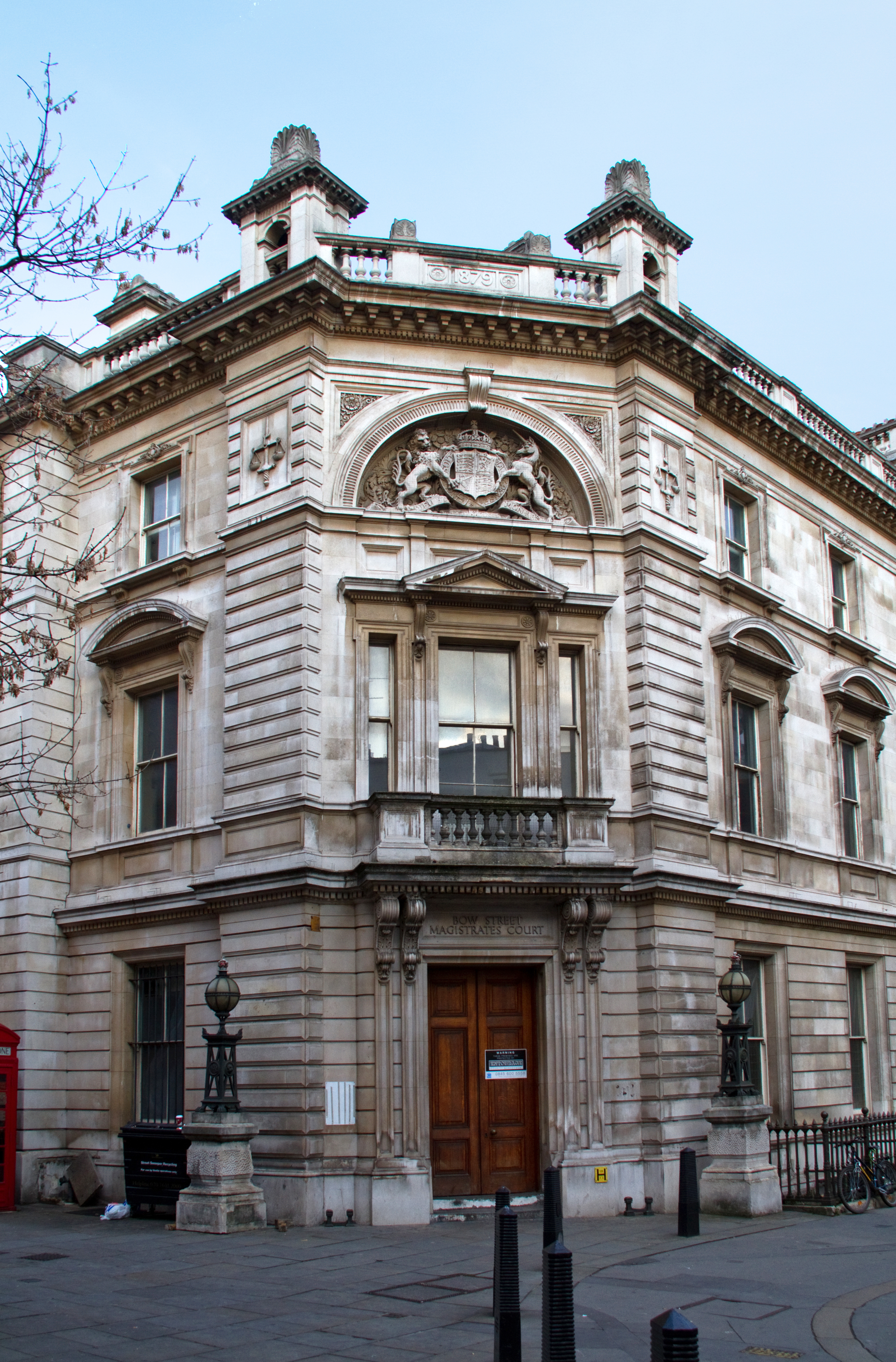 Bow Street Magistrates Court